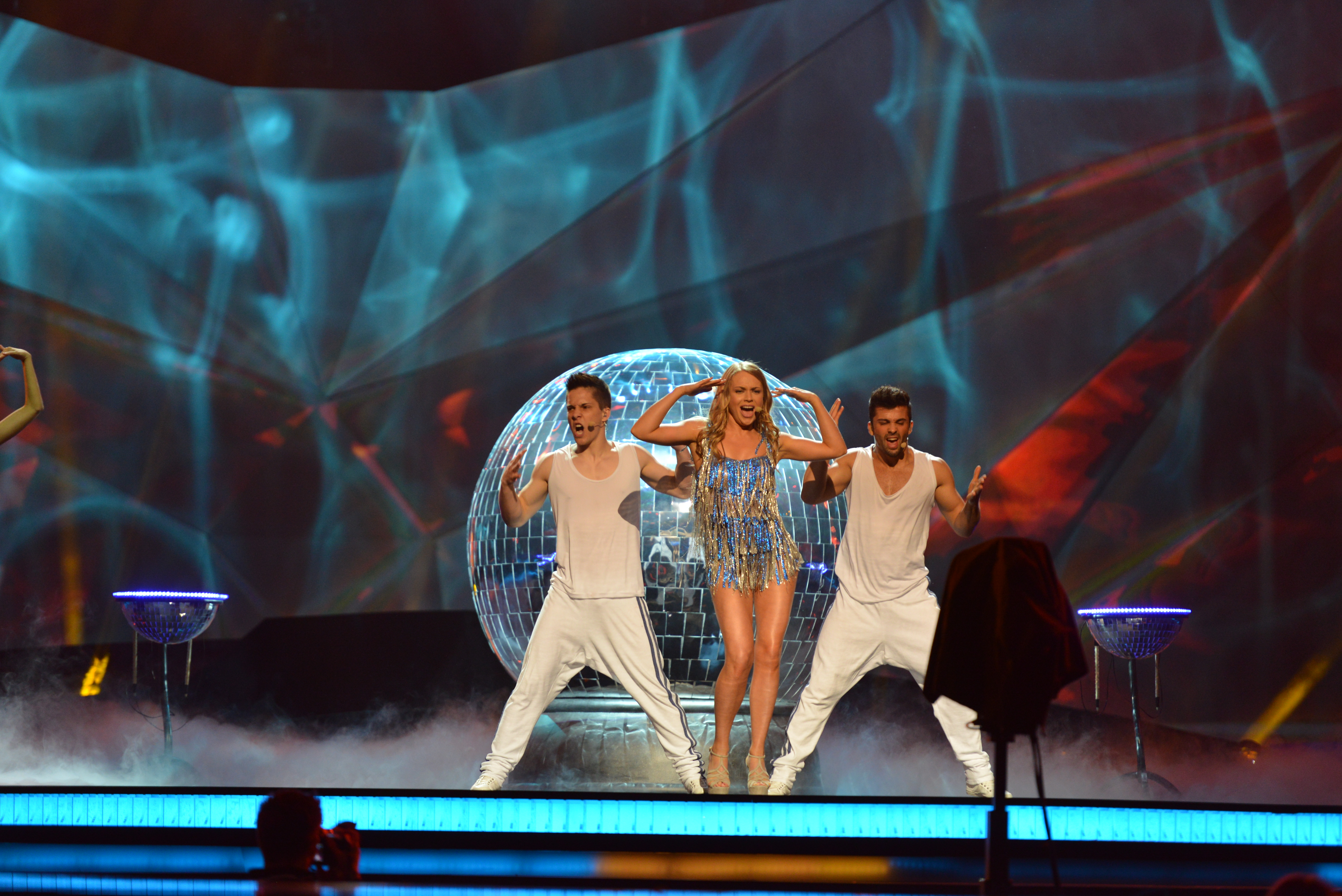 Alyona Lanskaya representing Belarus with the song "Solayoh" during the first dress rehearsal of the first semi final of the Eurovision Song Contest 2013 in Malmö. (Help translate this text)